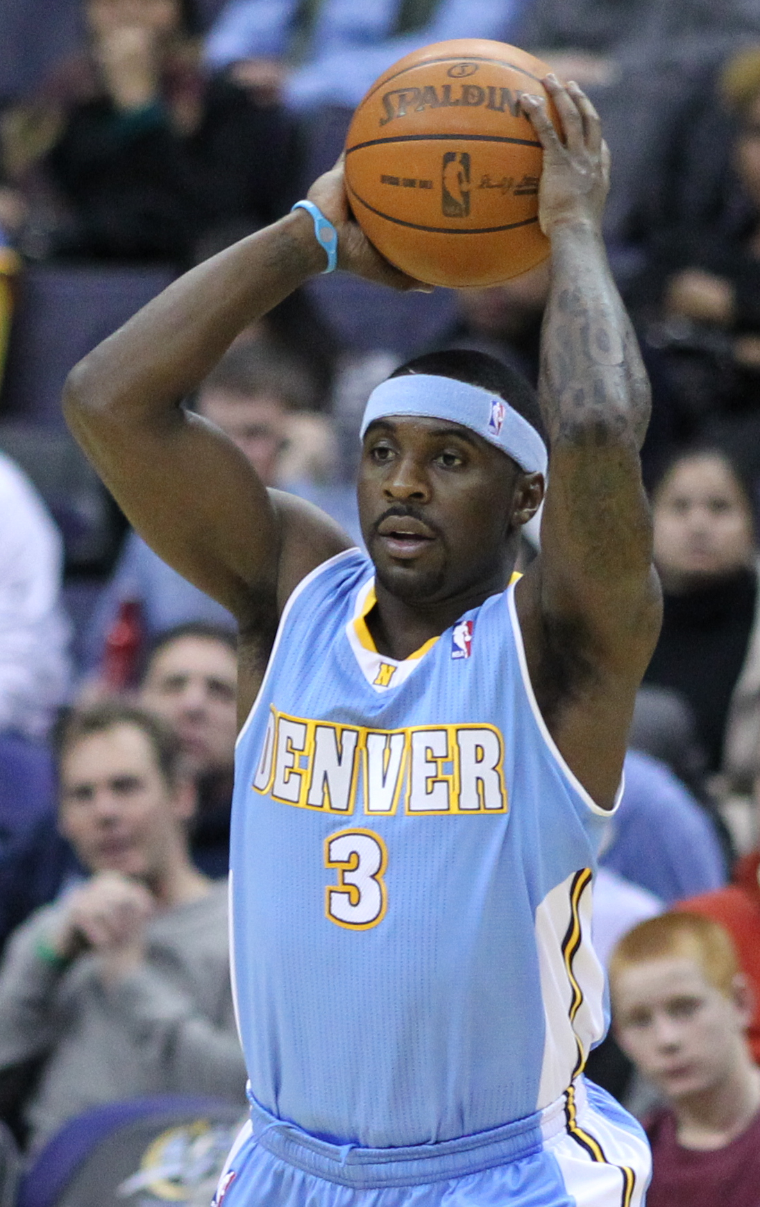 Washington Wizards v/s Denver Nuggets January 25, 2011